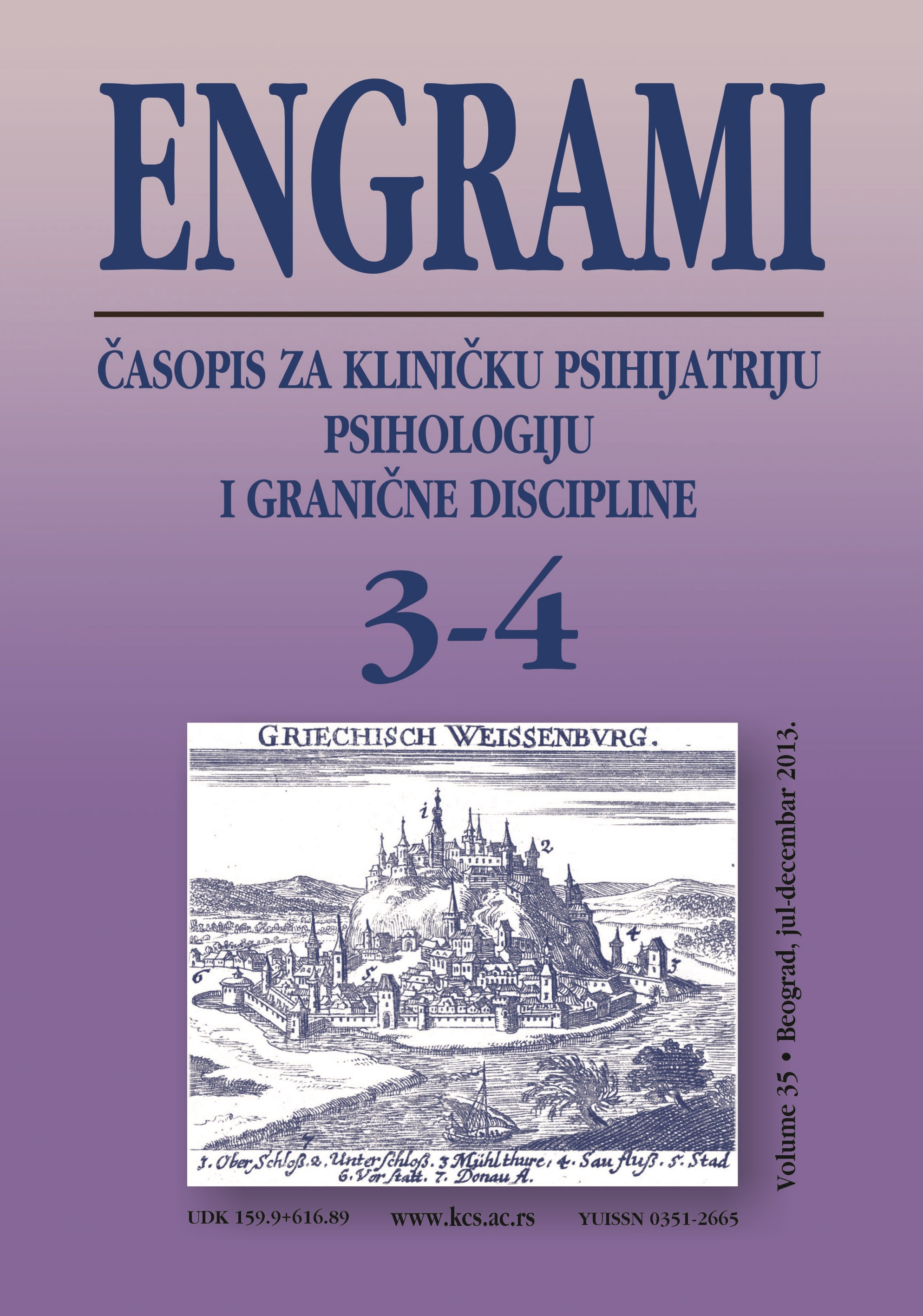 Front page